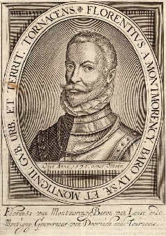 Florence of Montmorency